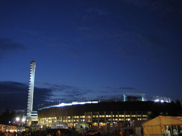 Helsinki Olympic Stadium